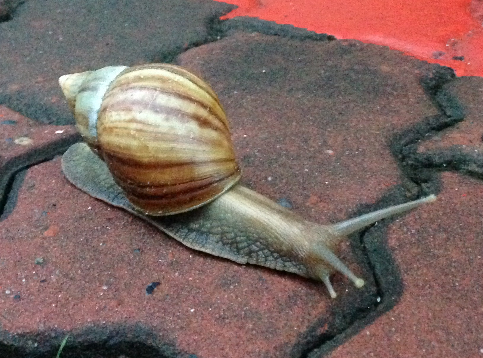 Achatina fulica